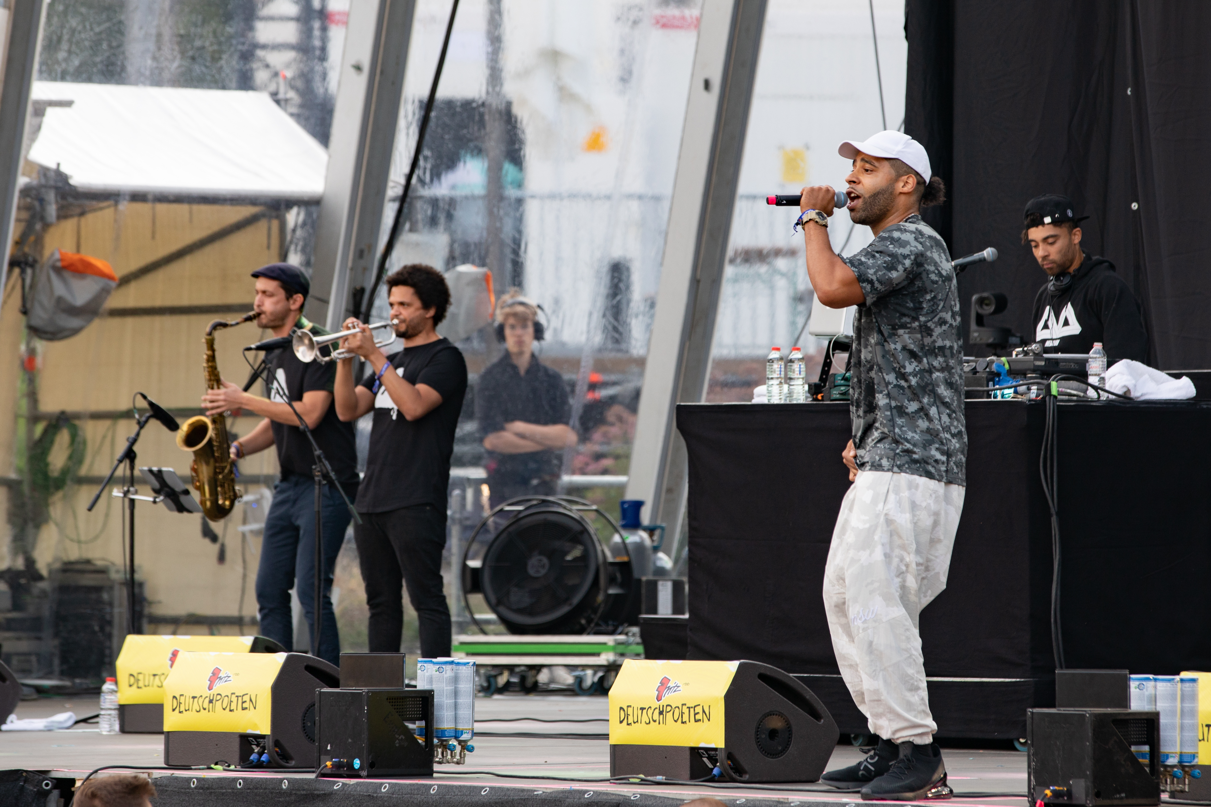 Megaloh at Fritz Deutschpoeten 2018, Berlin IFA Sommergarten